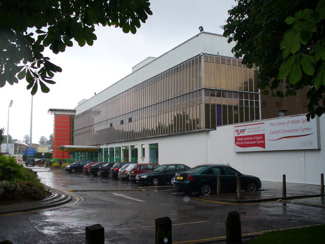 The Welsh Institute of Sport "The Home of Welsh Sport", Sophia Gardens. Modern "shoebox" architecture in concrete and glass. Beyond are the floodlights of the Sophia Gardens cricket ground.